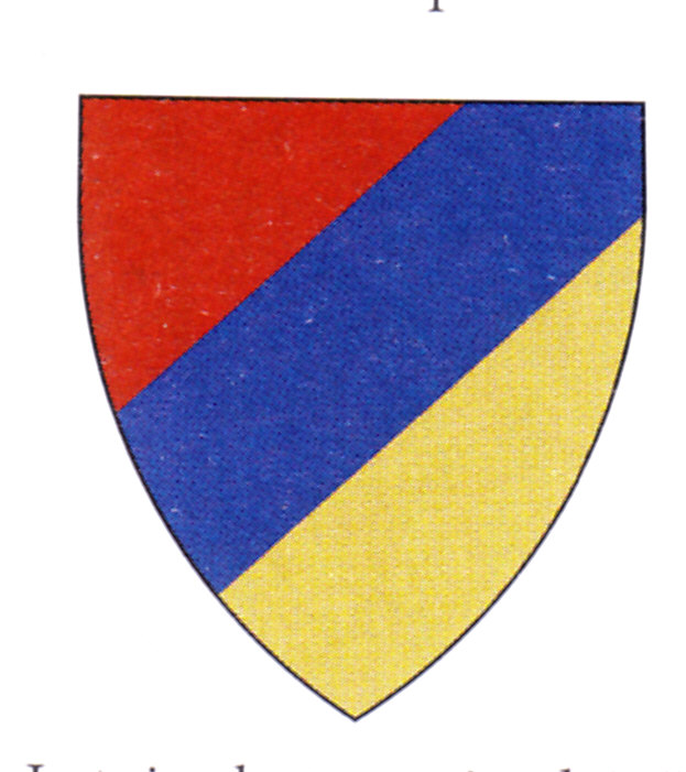 Latvia vairogs